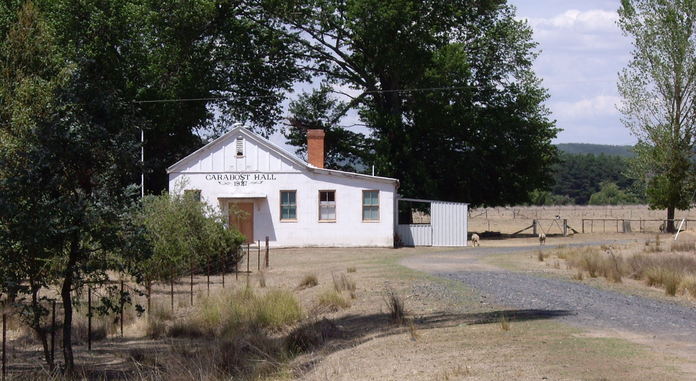 Carabost Hall built in 1927